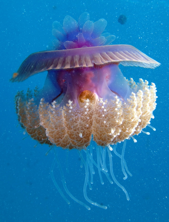 Cauliflour Jellyfish, Cephea cephea at Marsa Shouna, Red Sea, Egypt #SCUBA